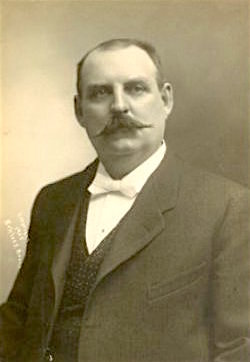 Michael John Garvin, (1861-1918), American architect from the Bronx, New York, authentic, original unsigned Cabinet Card.